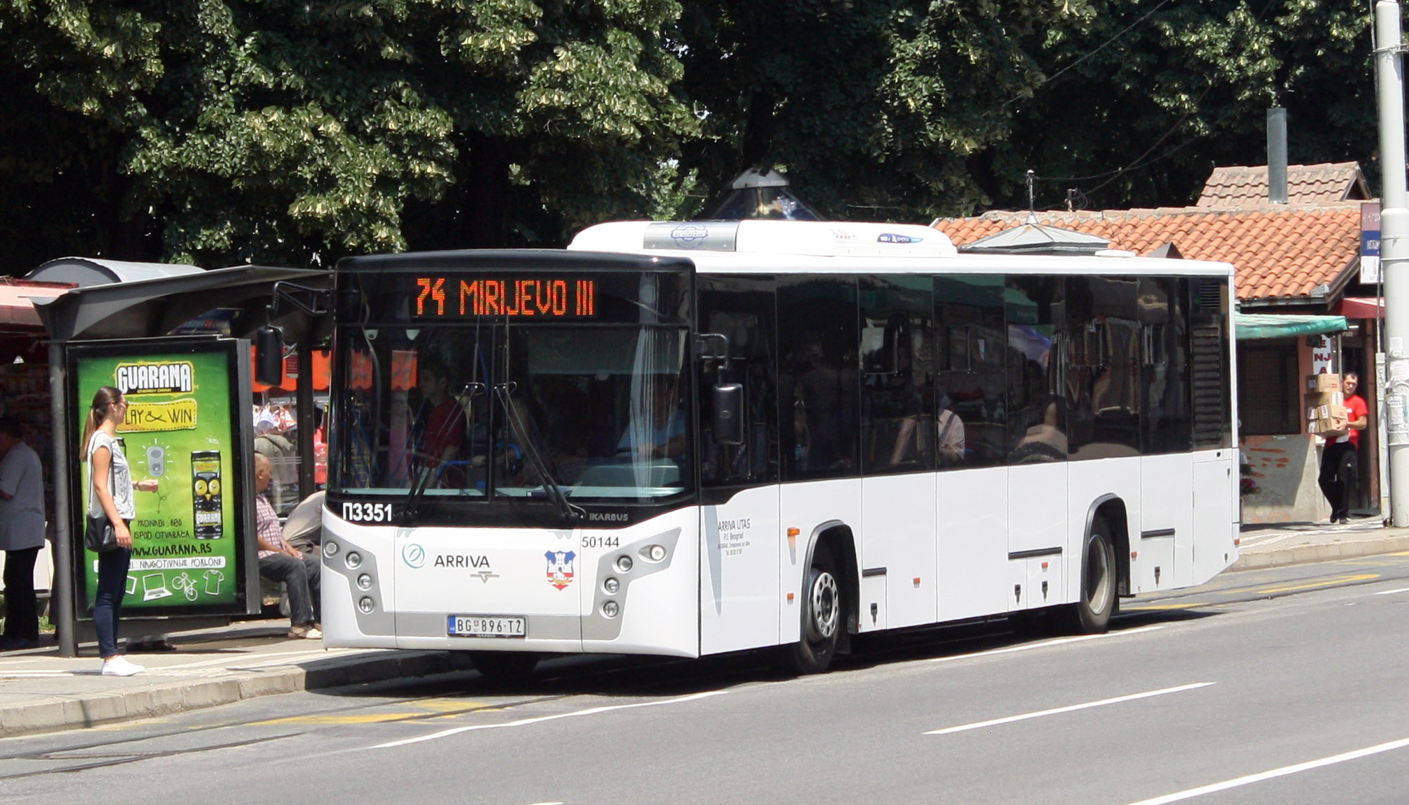 Ikarbus IK 112 city bus of Arriva LITAS in Belgrade on line 74.